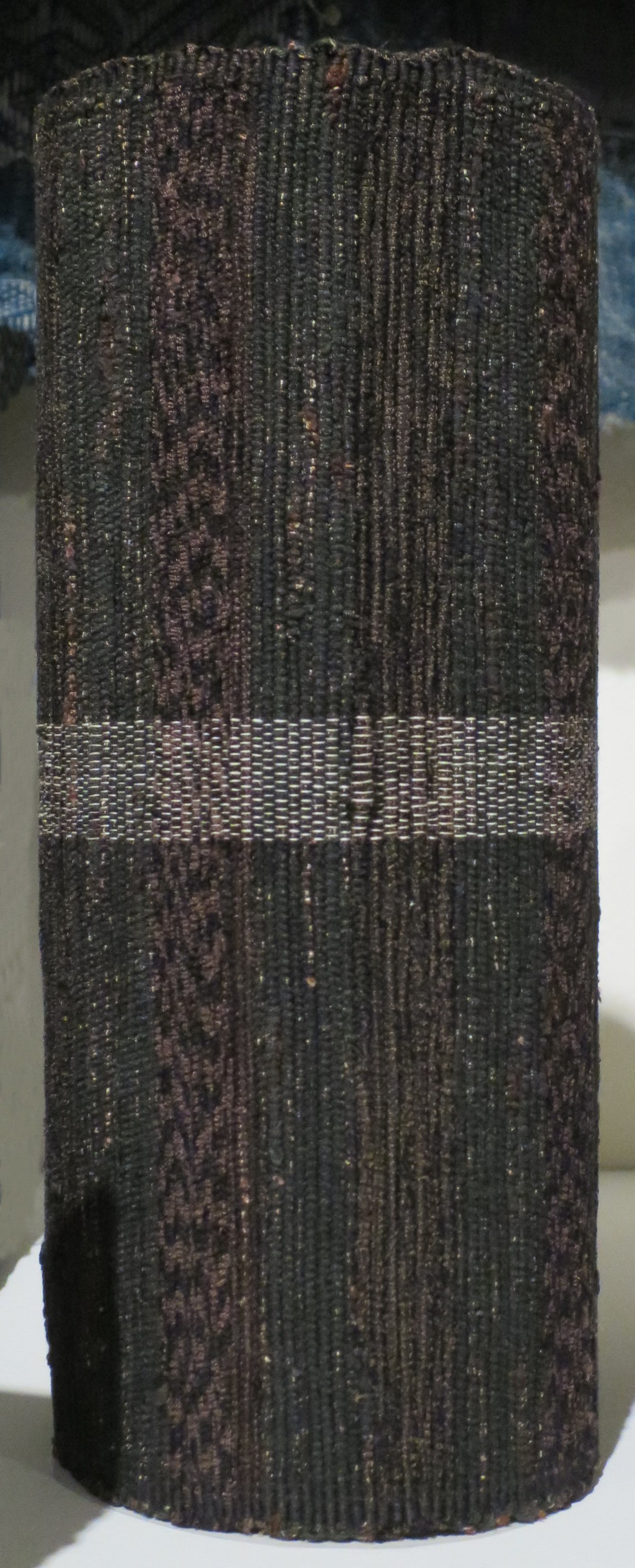 Sakiori (rag woven) obi (sash) from Japan, 20th century, cotton, silk, sakiori (rag woven) and plain weave, Honolulu Museum of Art, accession 12818.1